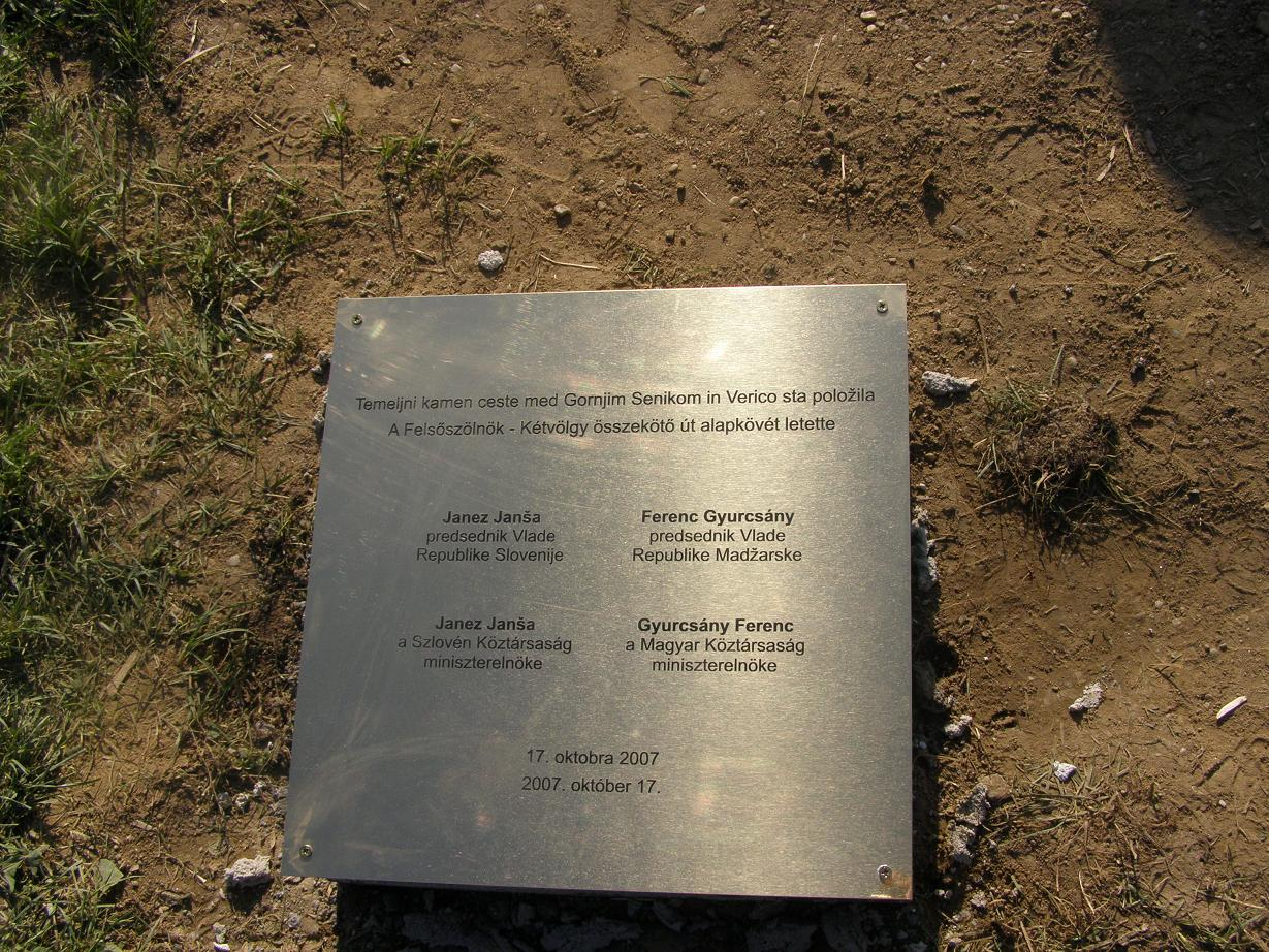 The foot-stone of the Felsőszölnök-Kétvölgy by-pass road